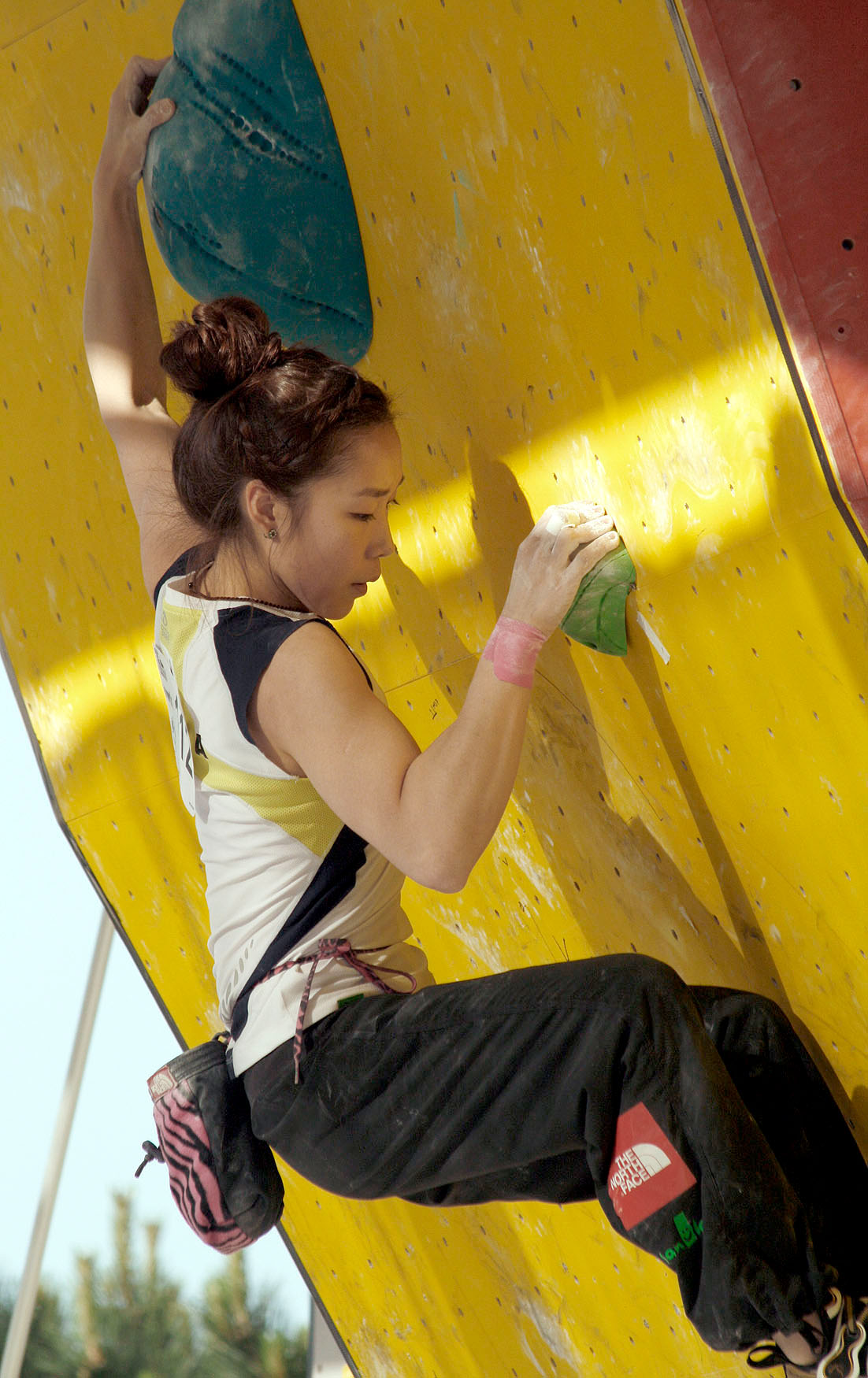 Jain Kim during qualifications at the IFSC Boulder Worldcup Vienna 2010.